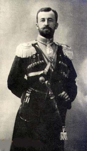 Vladimir Platonovič Liakhov (1869-1919)